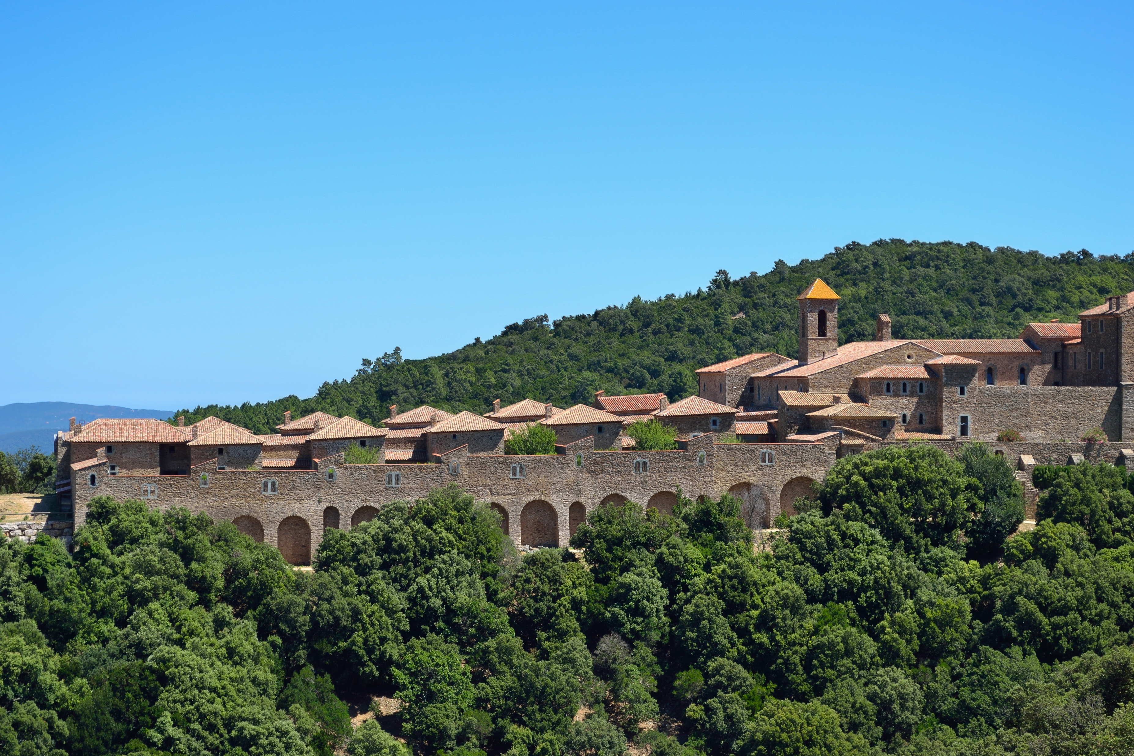 Charterhouse Chartreuse de la Verne, Massif des Maures, France.